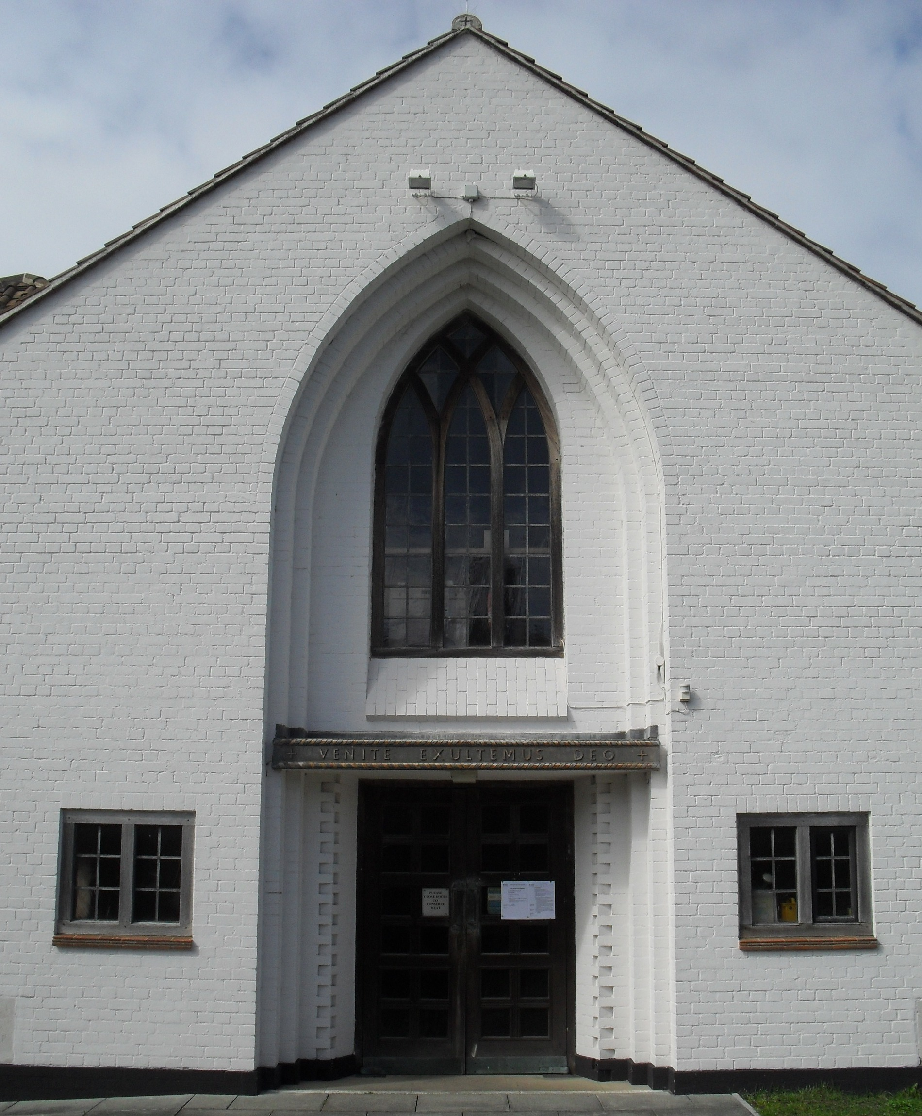 Pointed-arched entrance at St Mary's Church, at Decoy Drive, Hampden Park, Eastbourne, East Sussex, England.